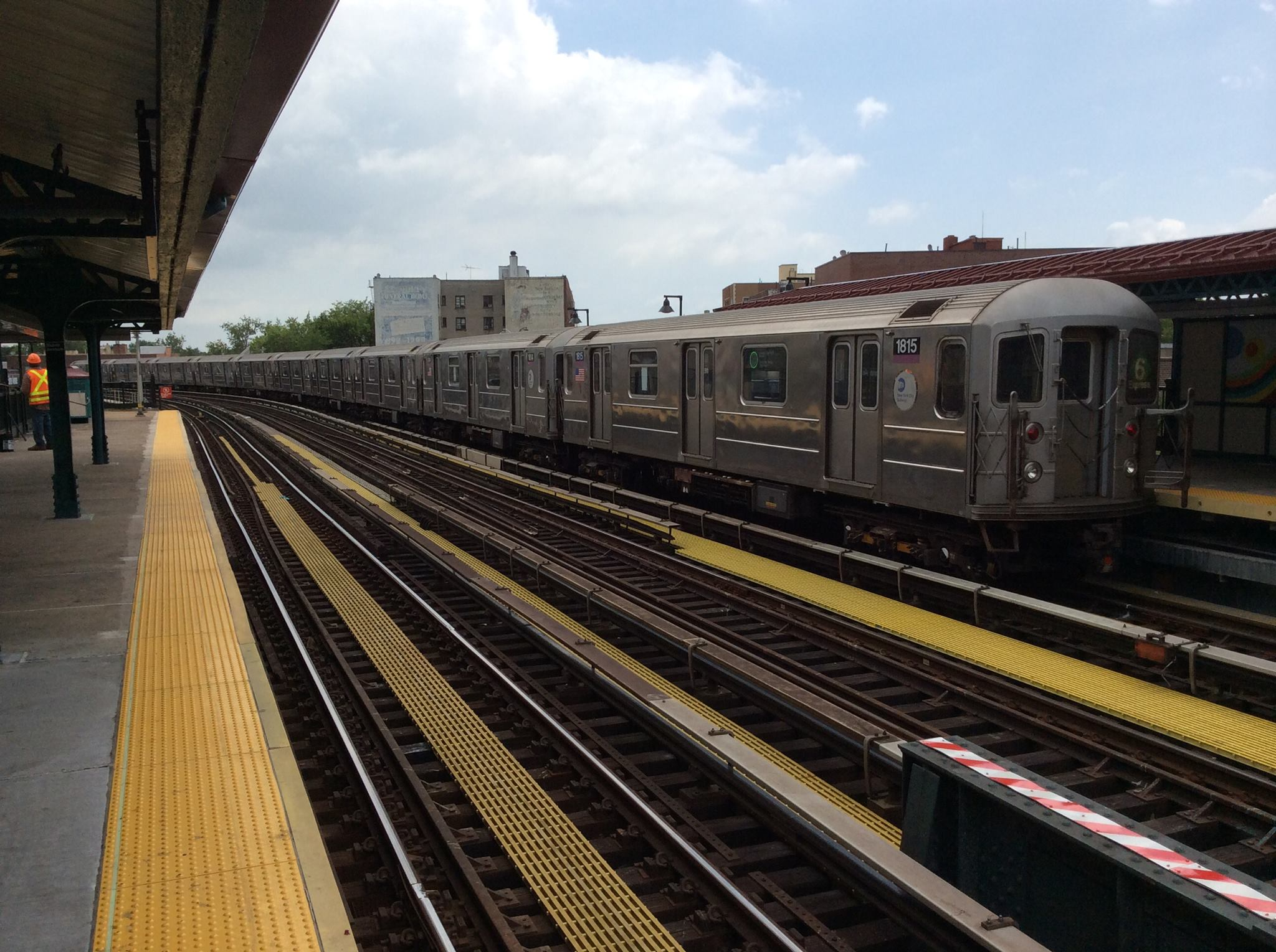 Northbound 6 train leaves Buhre Av.